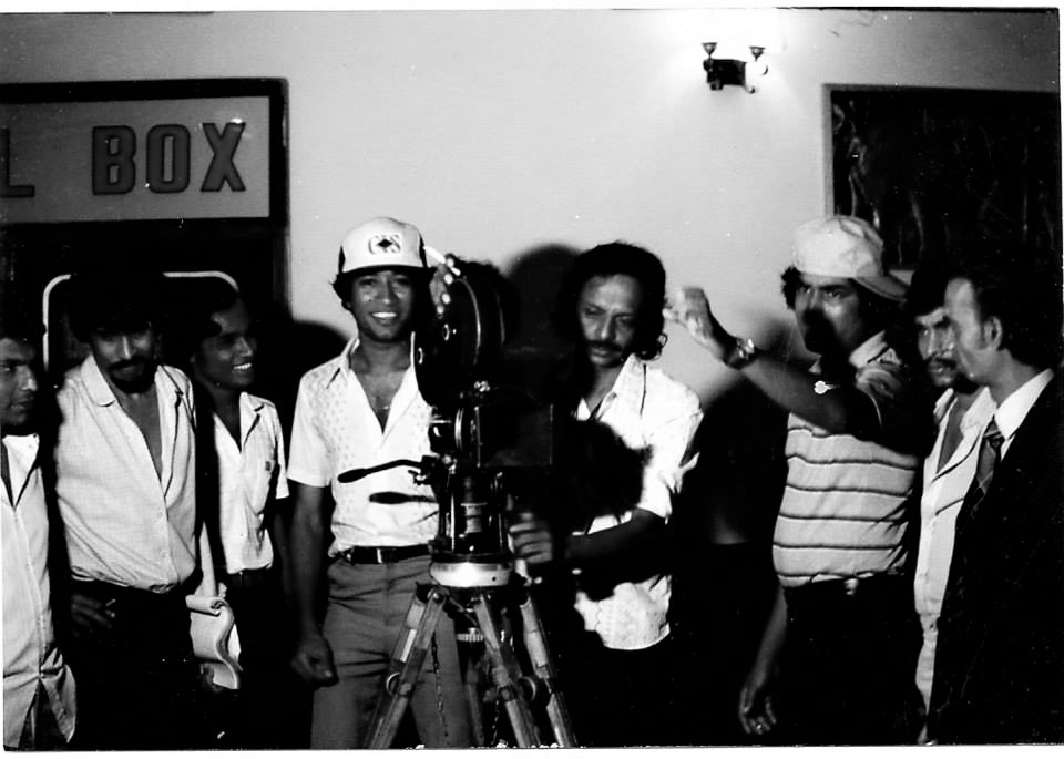 Poster of Avurududa